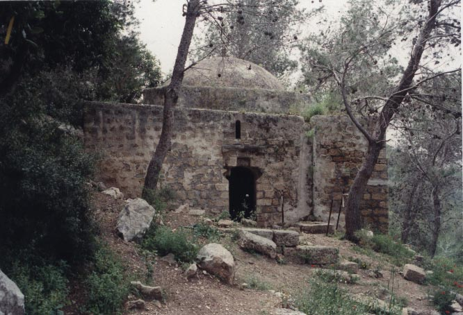 Tomb of Shaykh Amir one of the remaining in the village of Jaba Haifa